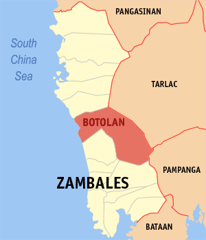 Map of Zambales showing the location of Botolan